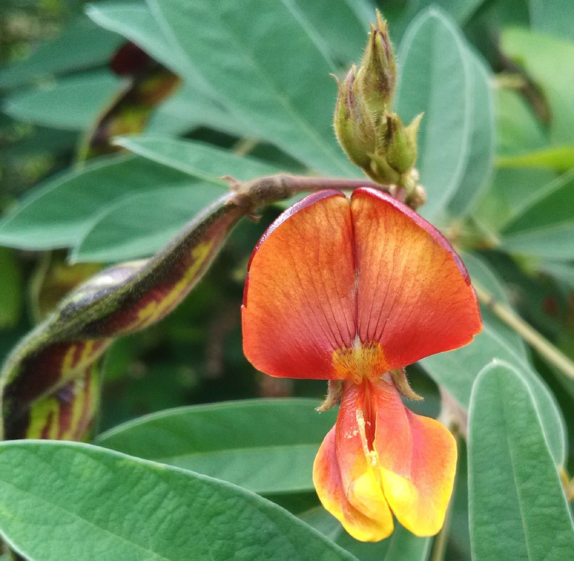 Pigeon-pea